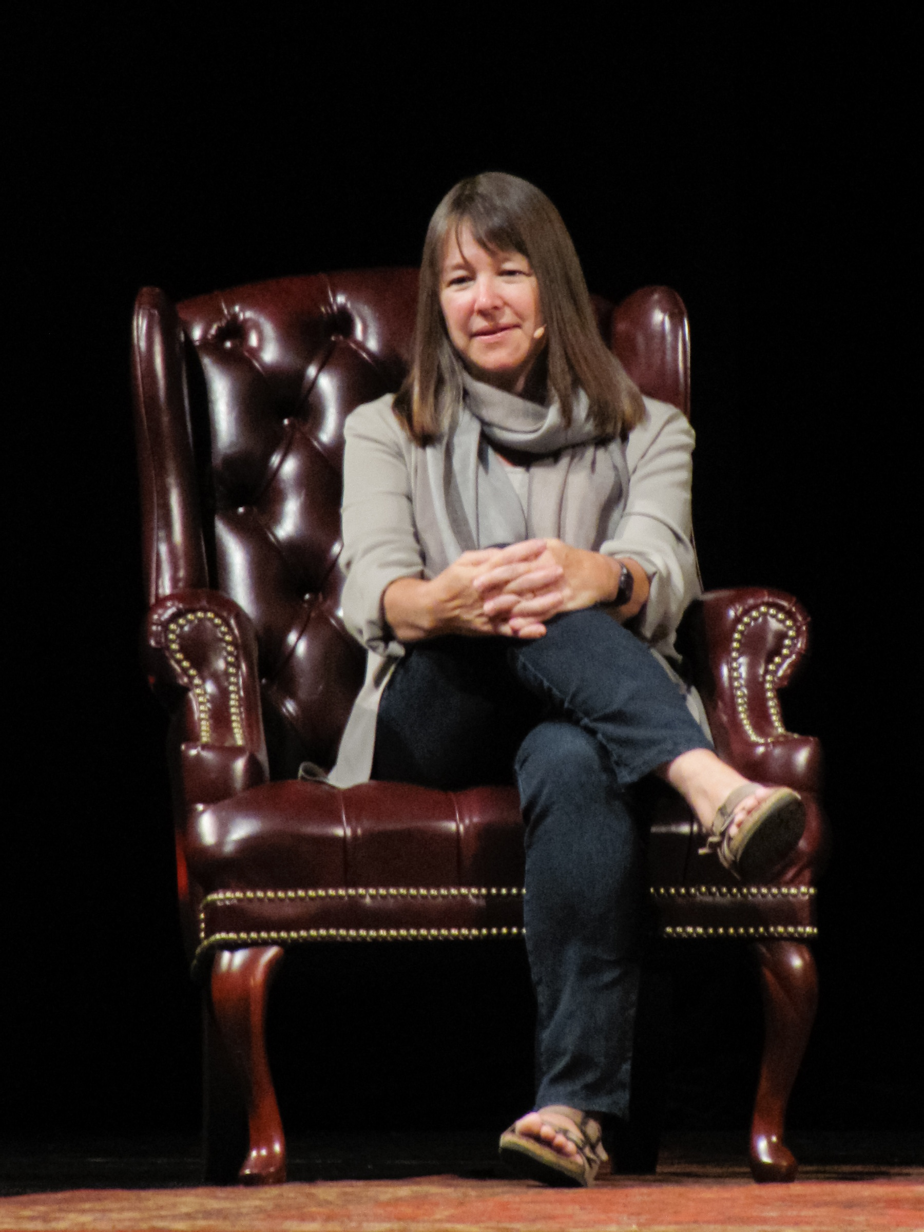 Anne Fadiman discusses her 1997 book The Spirit Catches You and You Fall Down at a "Three Books" discussion at Stanford Memorial Auditorium.